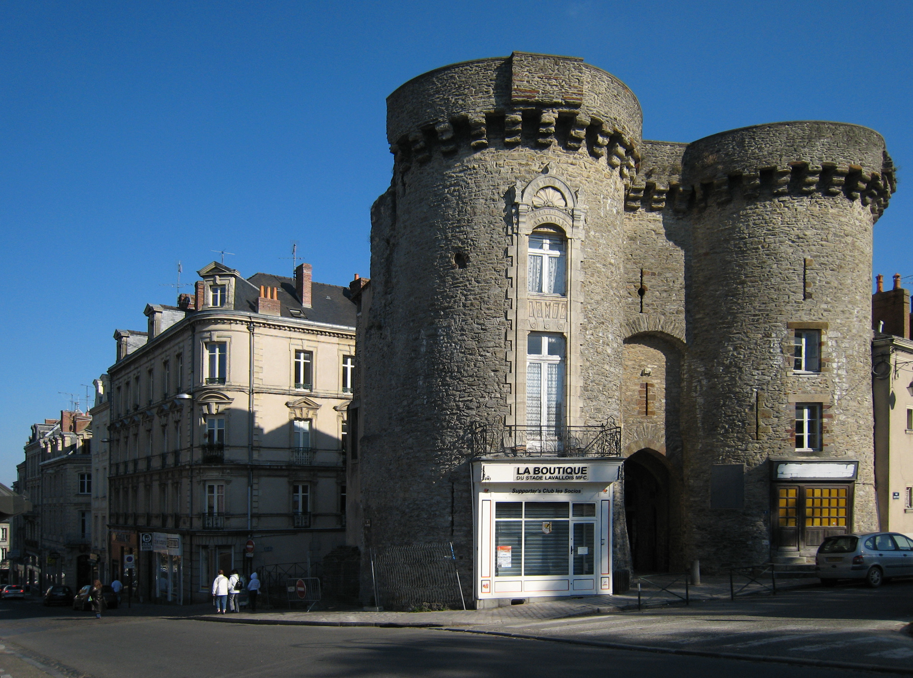 Village of Laval, located on the river Mayenne in the county of Mayenne/France; town - old town gate